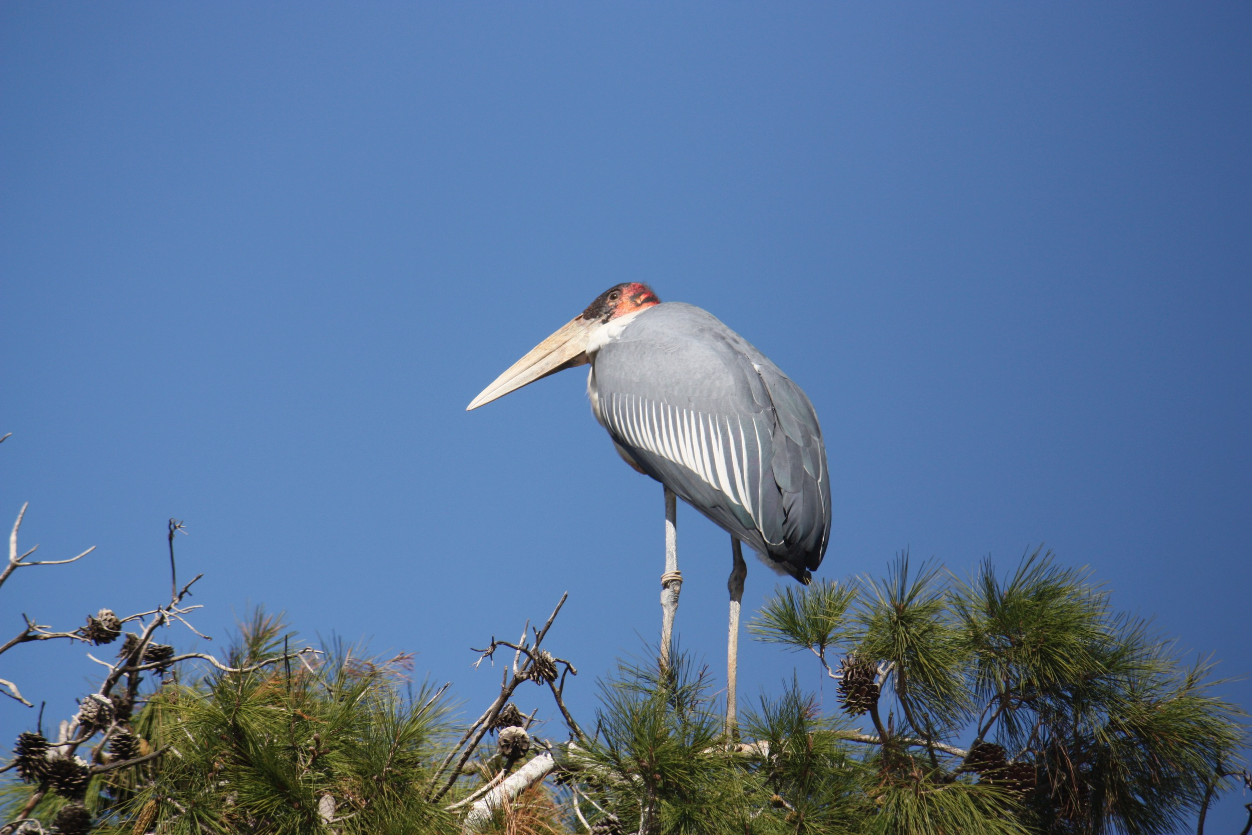 Marabou Stork in the Safari, Ramat-Gan, Israel